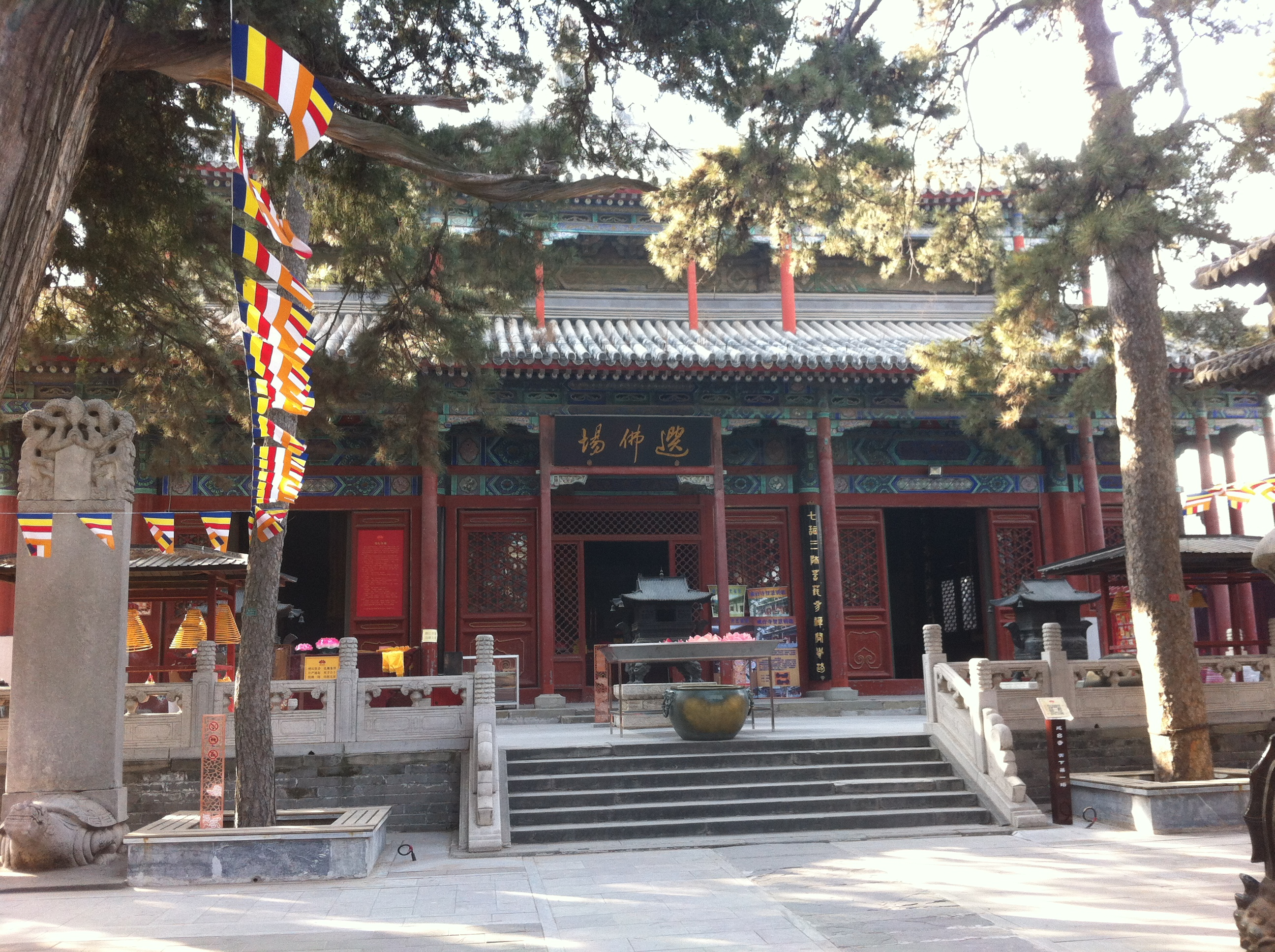 Can you see those Buddhist flags?